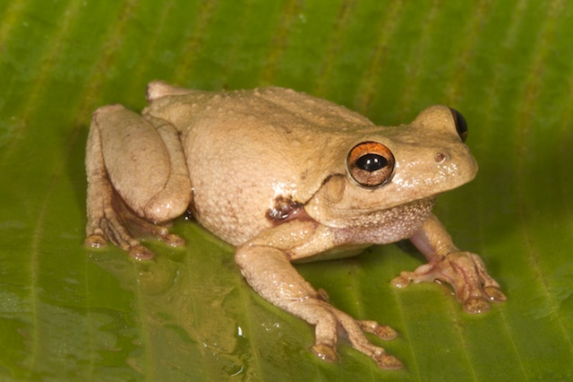 EVERETT'S TIMOR TREEFROG Litoria everetti Meleotegi River, Eraulo, Suco, Letefoho Subdistrict, Ermera District, Timor-Leste Reptile & Amphibian Survey of Timor-Leste Phase II 2010 [USNM 579394]